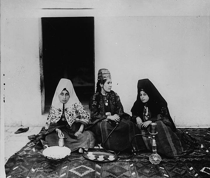 women at home gossip Beithlehem Palestine